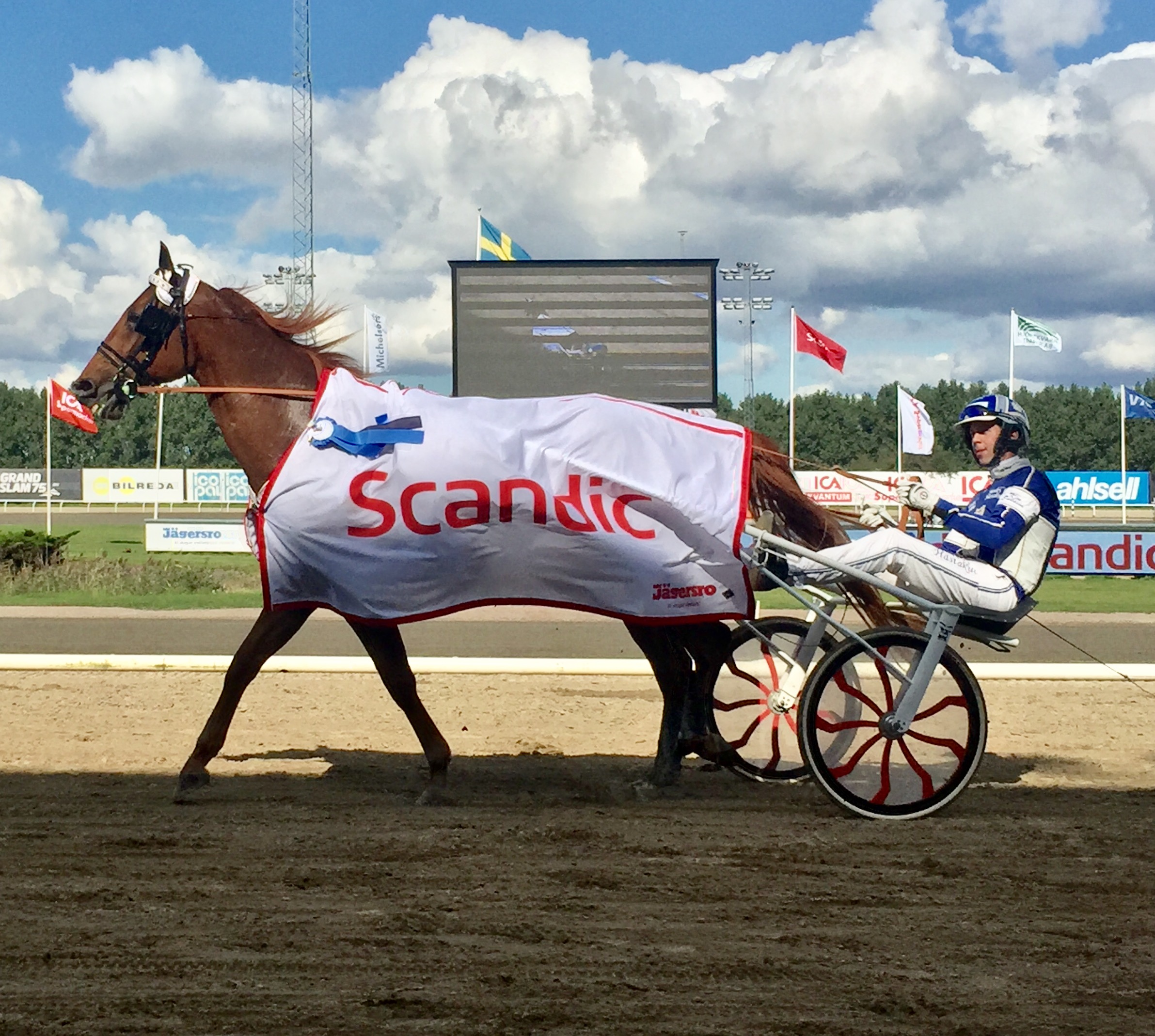 Kim Eriksson and Star Advisor Joli at Jägersro 2017-09-03.